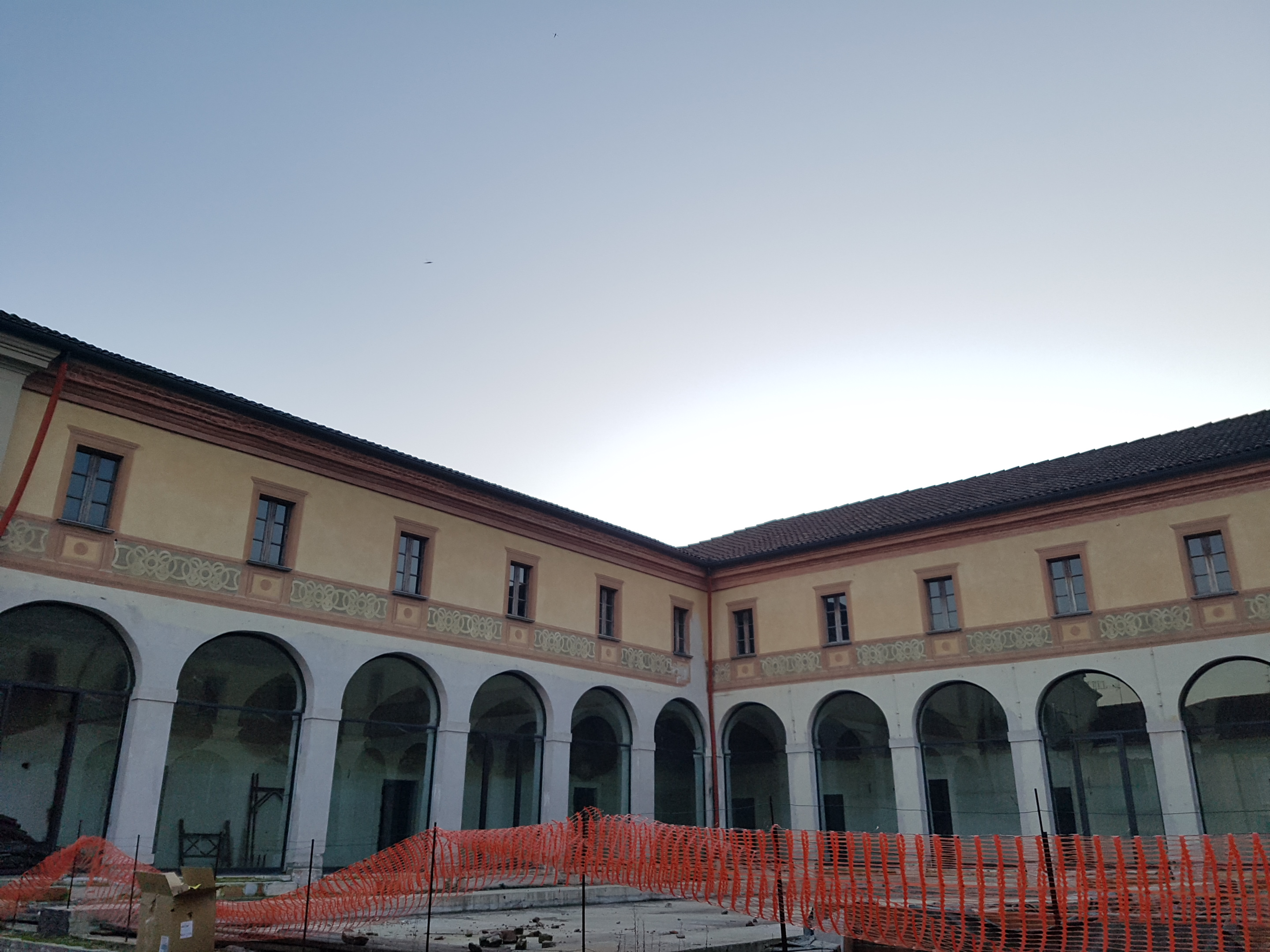 St Bernardin Convent (XVI century), Chivasso, Northern Italy